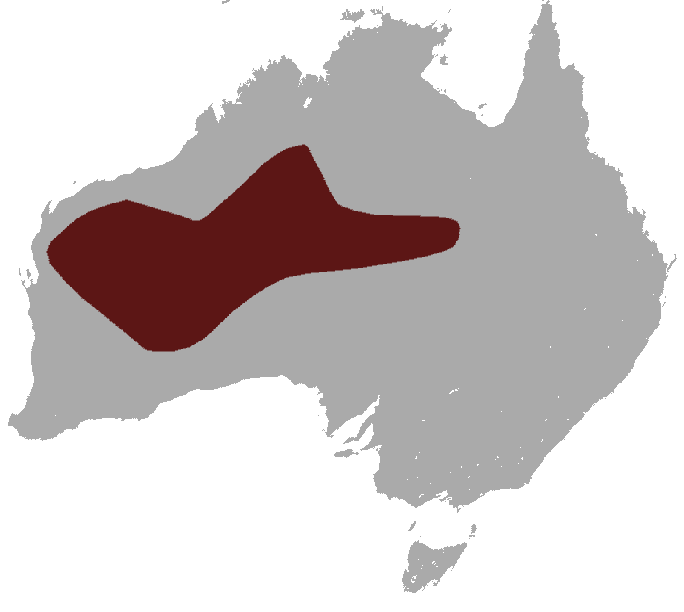 Brush-tailed Mulgara (Dasycercus blythi) range IUCN: Dasycercus blythi (Waite, 1904) (old web site) (Least Concern)